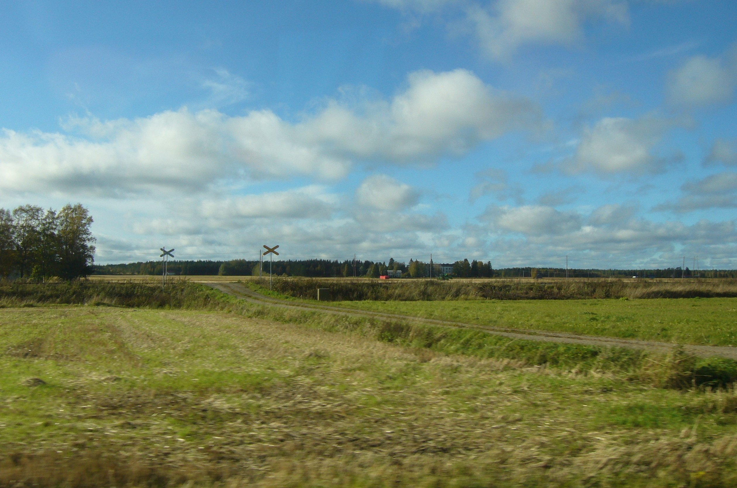 A level crossing at the Seinäjoki–Kaskinen railway line in Turjankylä, Kauhajoki, Finland